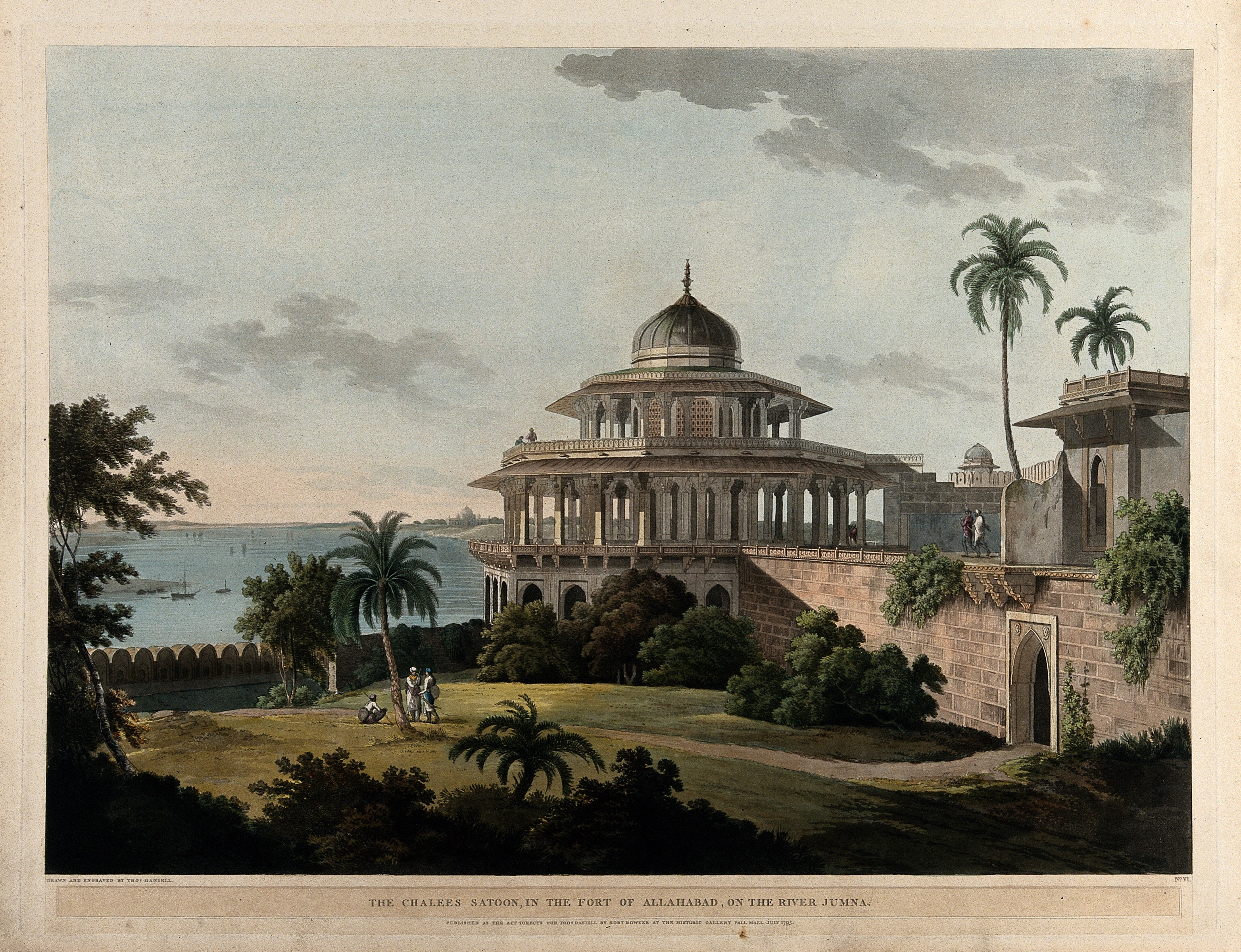 The Chalis Satun, or Hall of Forty Pillars, at Allahabad, Uttar Pradesh. Coloured aquatint by Thomas Daniell, 1795. Iconographic Collections Keywords: Thomas Daniell